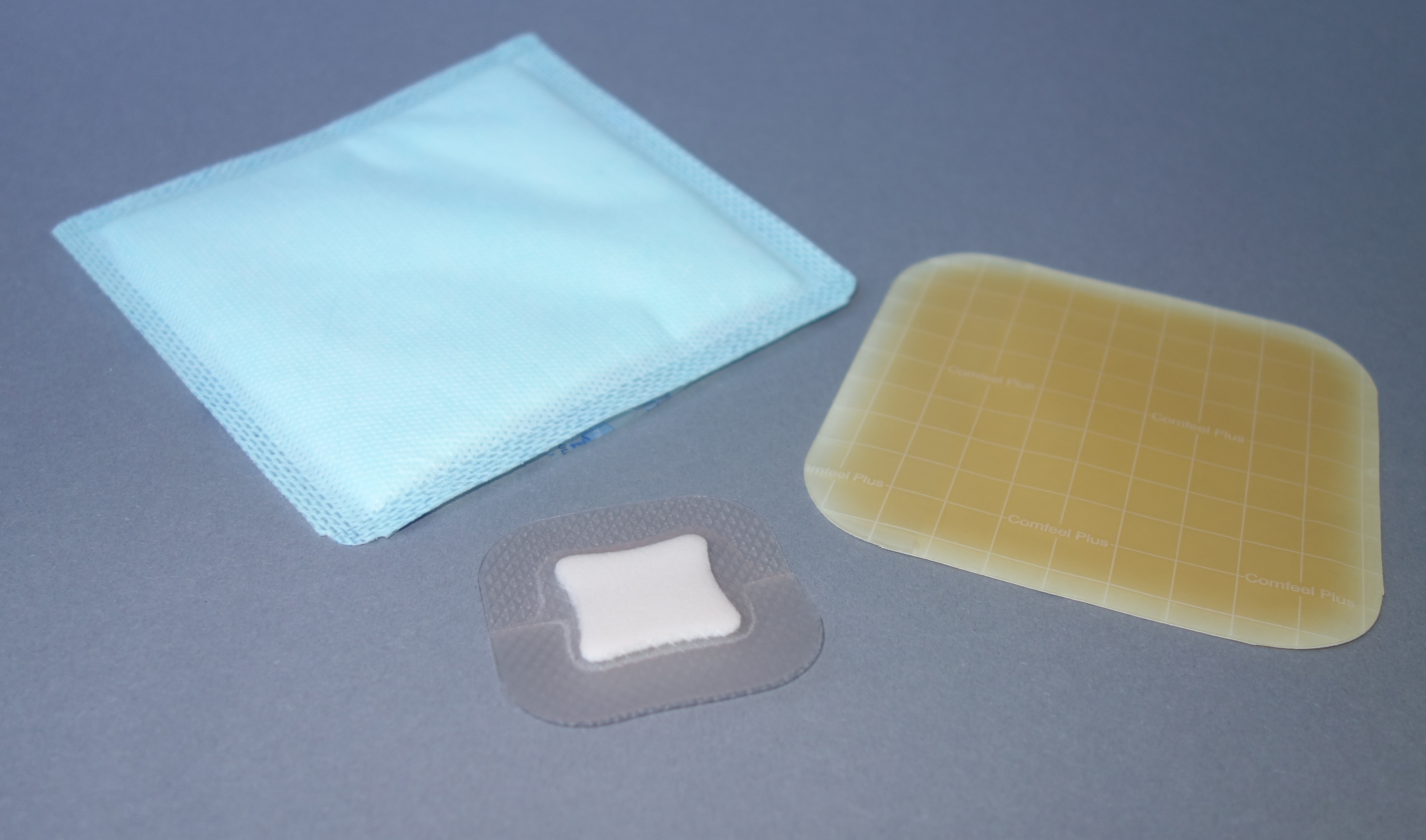 several wound dressings